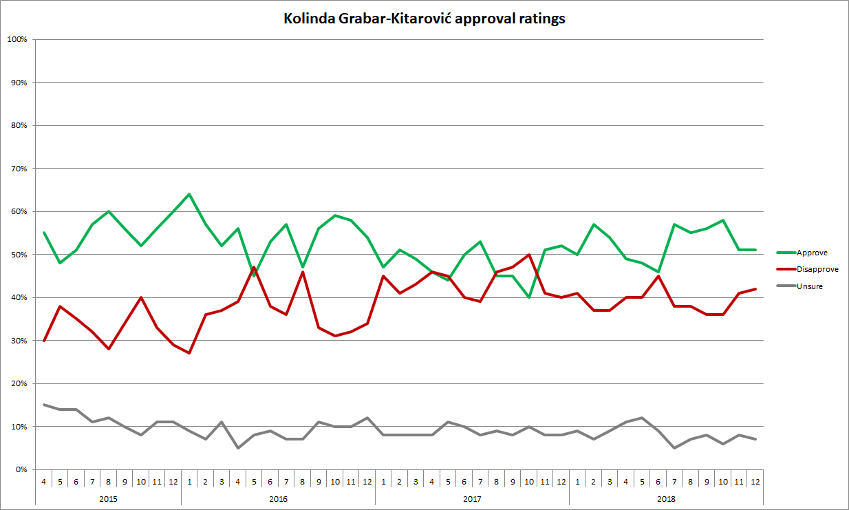 Approval ratings of Croatian President Kolinda Grabar-Kitarović, according to Ipsos Puls polling agency